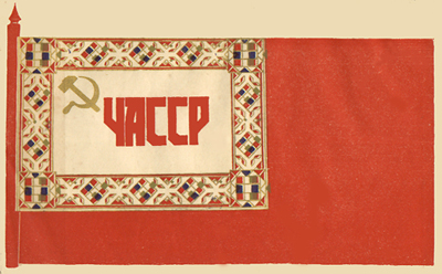 The flag of ChASSR (1927).